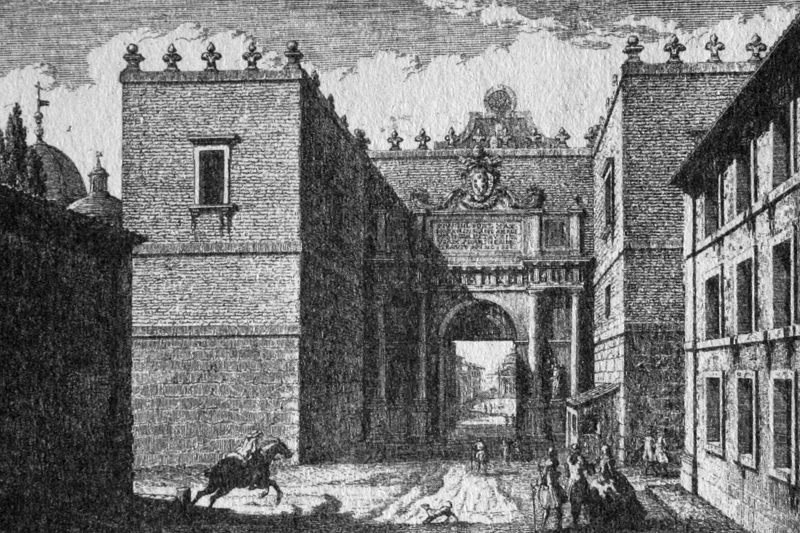 1) Dome of S. Maria del Popolo; 2) warehouses and granaries.